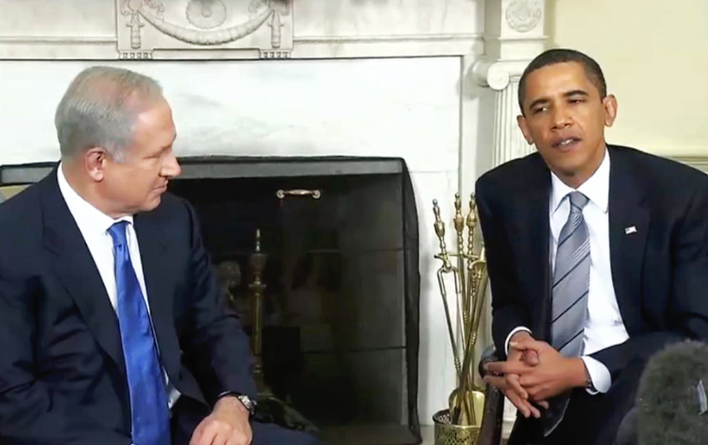 President Barack Obama and Israeli Prime Minister Benjamin Netanyahu deliver a press conference following their meeting in the Oval Office. Screen-shot from official White House video.